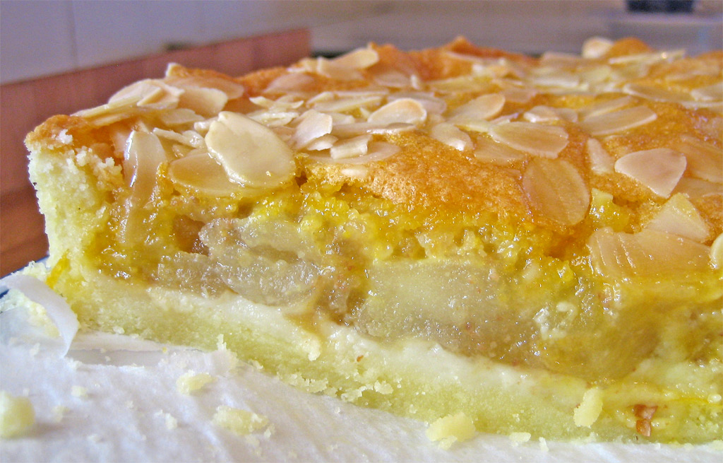 Crostata with apples and slivered almonds in profile.